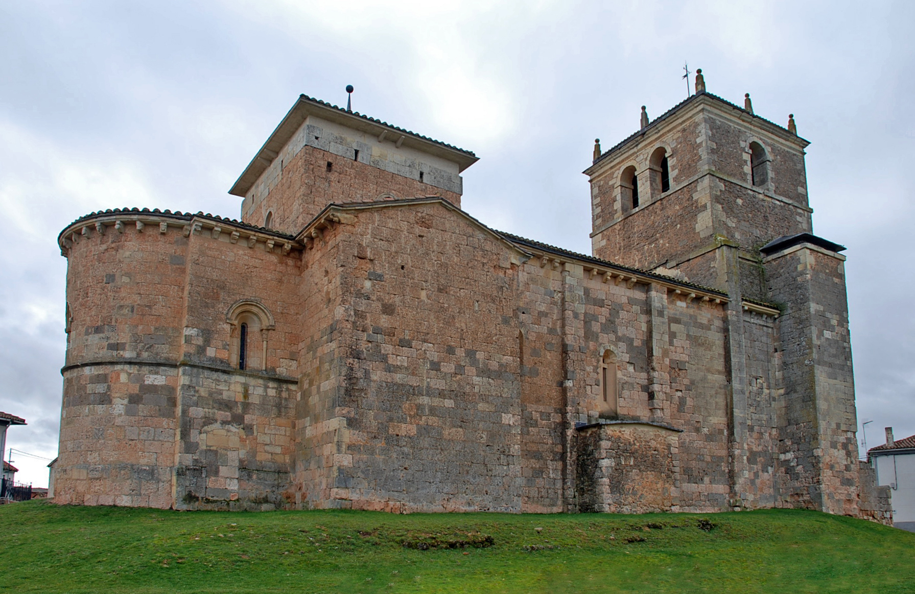 Church of Saint Lawrence in Zorita del Páramo (Palencia, Castile and León).